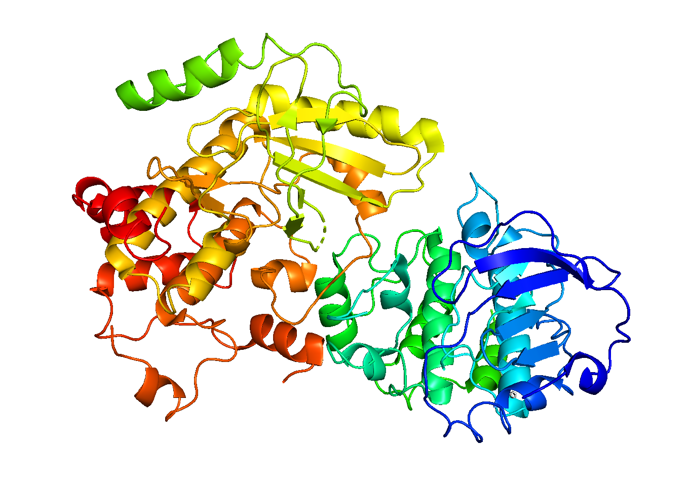 Three-dimensional structure of KSR2/MEK1 complex. Based on PyMOL rendering of PDB.